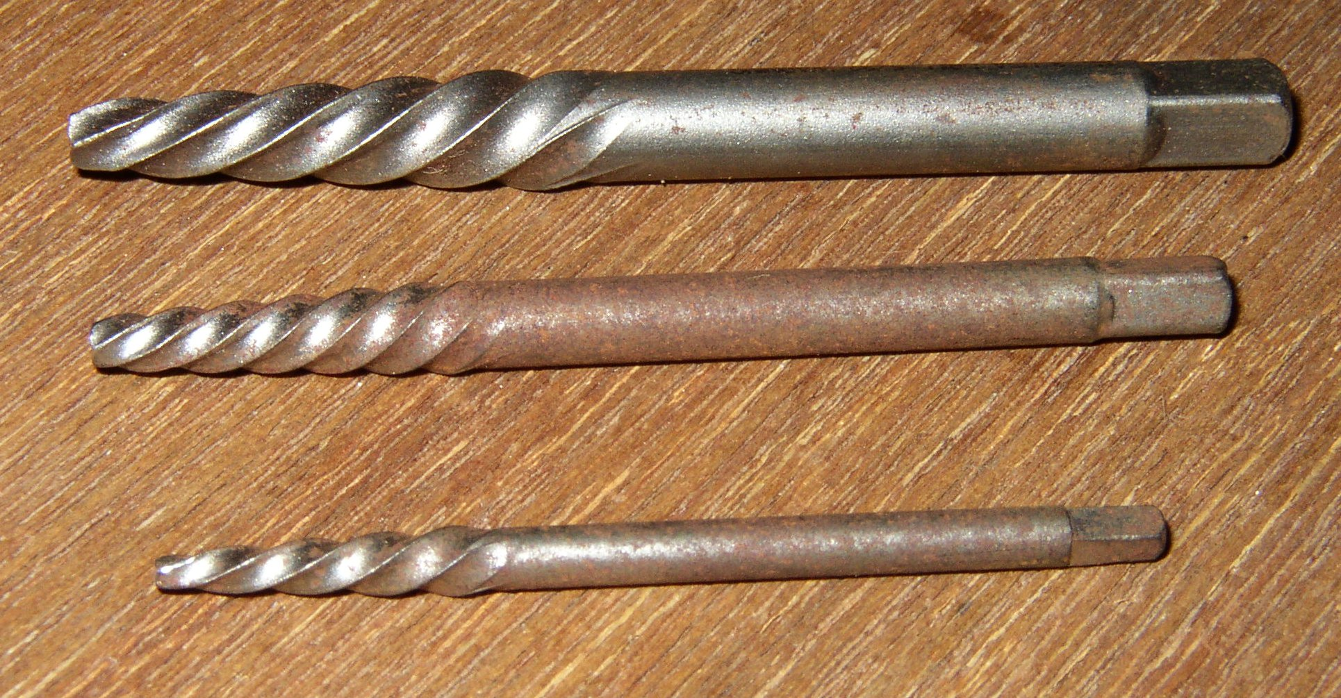 Three sizes of damaged screw removers. I took this photo myself, of my bits, and release it under the GFDL.